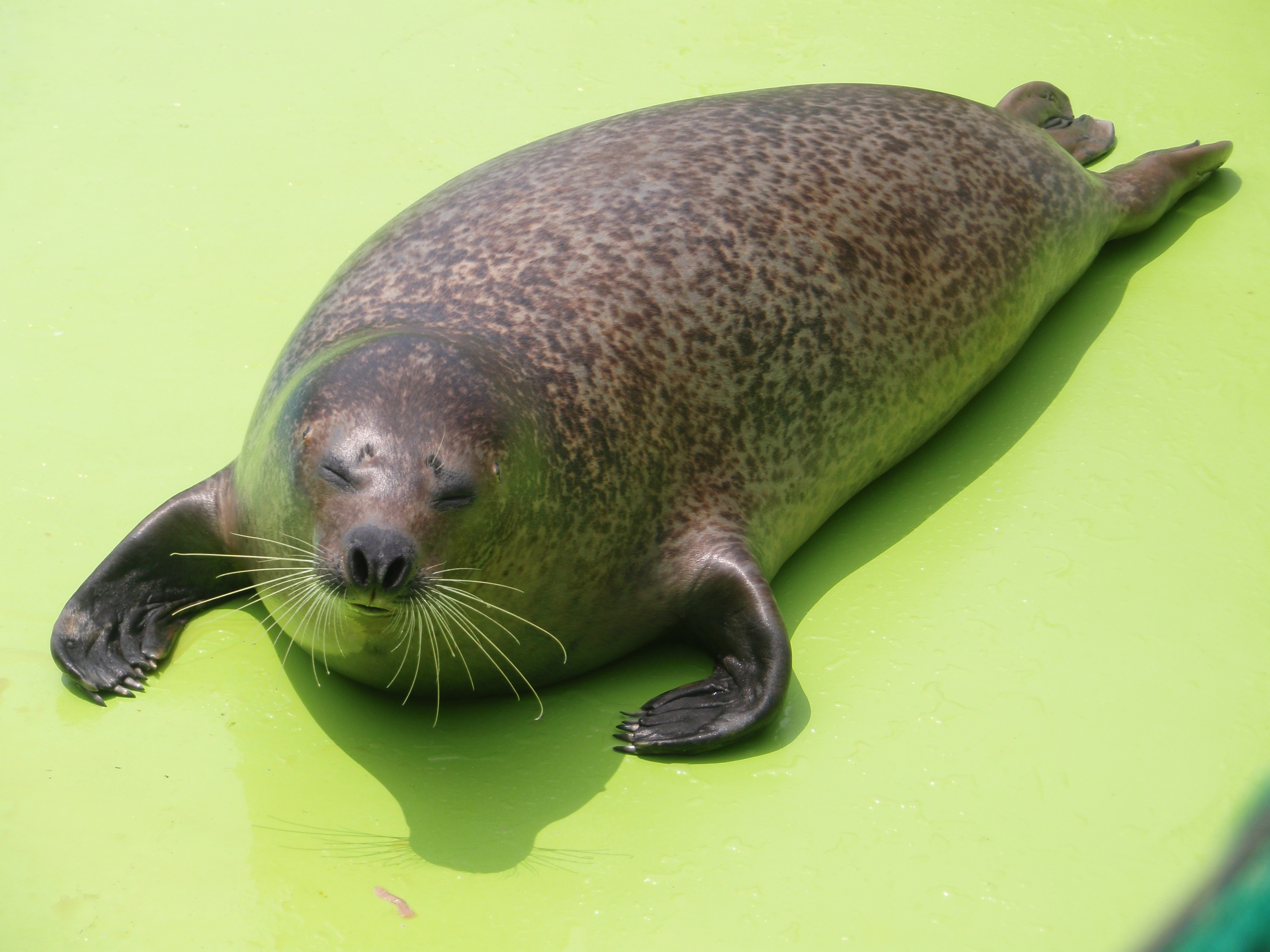 a Spotted Seal in Echizen Matsushima Aquarium, Japan